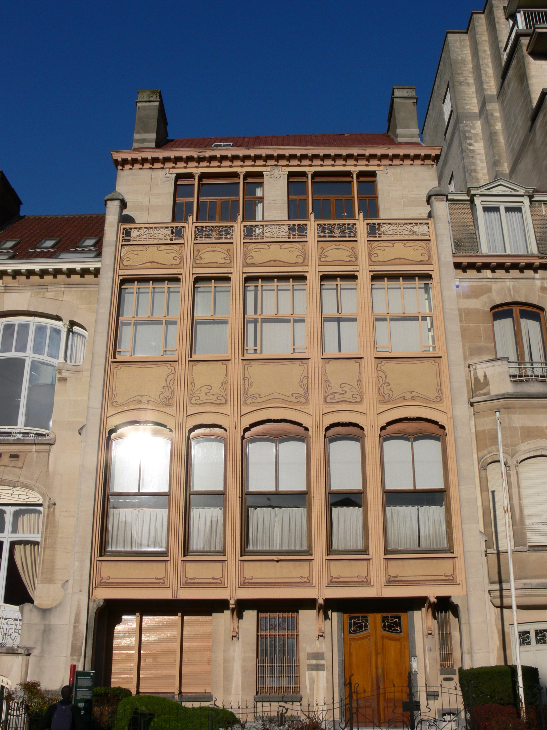 Hôtel van Eetvelde, built by Victor Horta, in Brussels